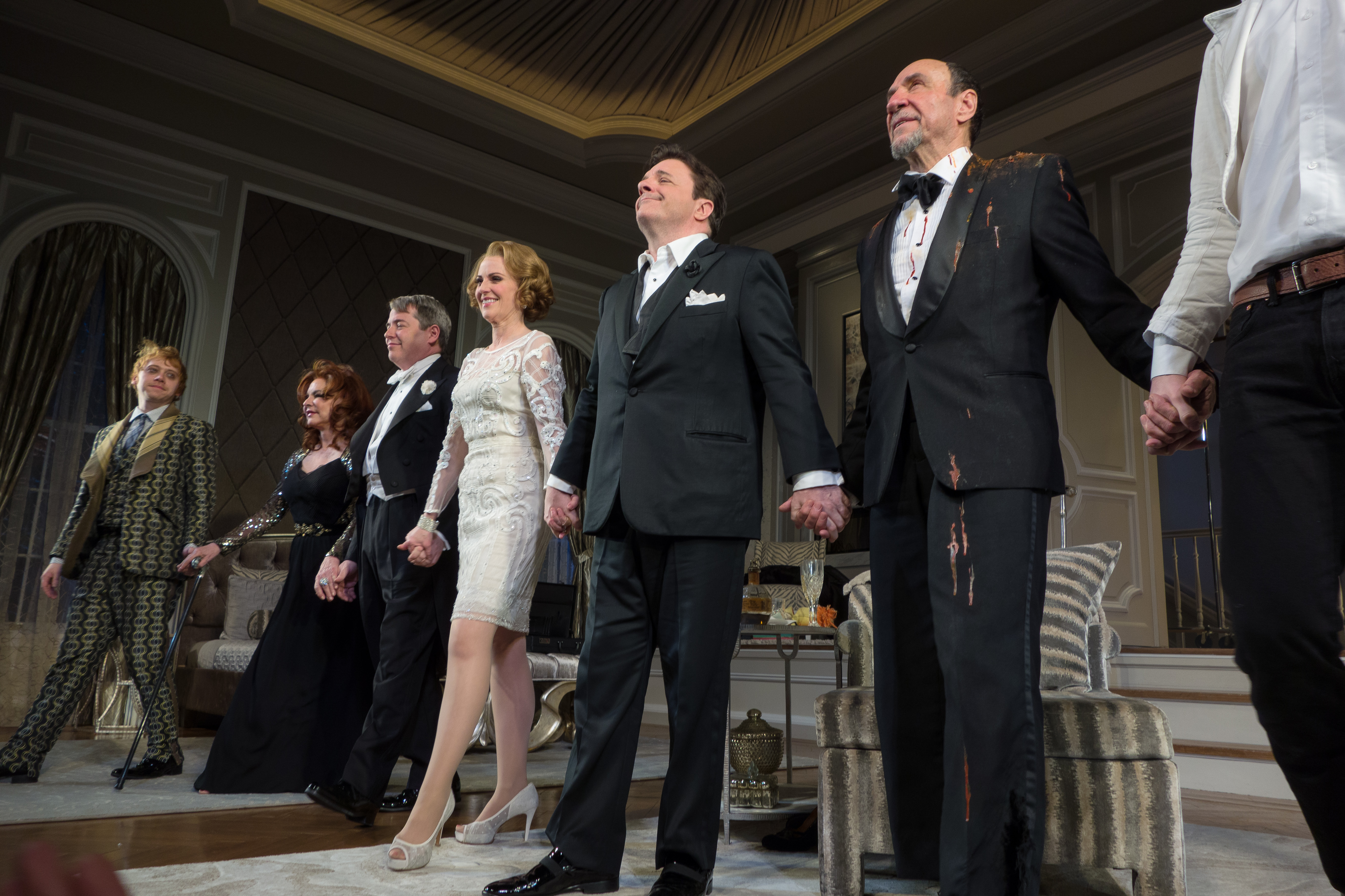 (L to R) Rupert Grint - Frank Finger Stockard Channing - Virginia Noyes Matthew Broderick - Peter Austin Megan Mullally - Julia Budder Nathan Lane - James Wicker F. Murray Abraham - Ira Drew Micah Stock (partial) - Gus It's Only a Play Gerald Schoenfeld Theatre New York, New York December 21, 2014 Matinee